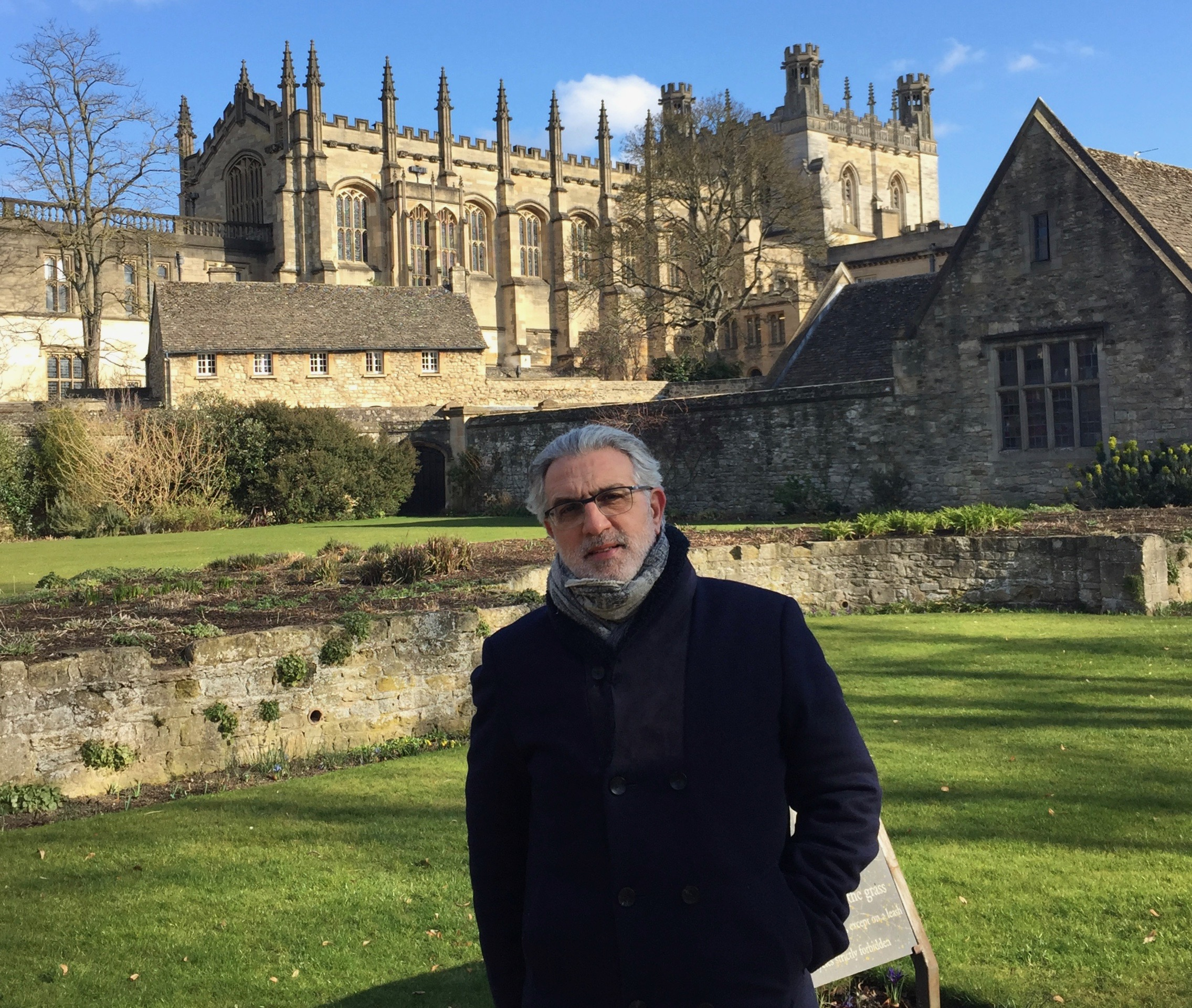 Conference de Robert Kaddouch avec Simha Arom à Oxford, lundi 26 février 2018 à 17h au College St John. Conférence organisée par le Pr Strohm et le Pr Stanyeck